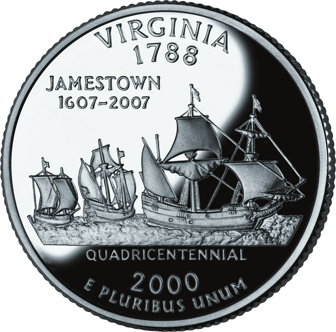 Removed background, cropped, and converted to PNG with Macromedia Fireworks. This image depicts a unit of currency issued by the United States of America. If Fraudulent use of this image is punishable under applicable counterfeiting laws. As listed by the United States Secret Service at money illustrations, the Counterfeit Detection Act of 1992, Public Law 102-550, in Section 411 of Title 31 of the Code of Federal Regulations (31 CFR 411), permits color illustrations of U.S. currency provided:1. The illustration is of a size less than three-fourths or more than one and one-half, in linear dimension, of each part of the item illustrated;2. The illustration is one-sided; and3. All negatives, plates, positives, digitized storage medium, graphic files, magnetic medium, optical storage devices, and any other thing used in the making of the illustration that contain an image of the illustration or any part thereof are destroyed and/or deleted or erased after their final use. Certain coins contain copyrights licensed to the U.S. Mint and owned by third parties or assigned to and owned by the U.S. Mint [1]. For the United States Mint circulating coin design use policy, see [2]; for the policy on the 50 State Quarters, see [3]. Also: COM:ART #Photograph of an old coin found on the Internet